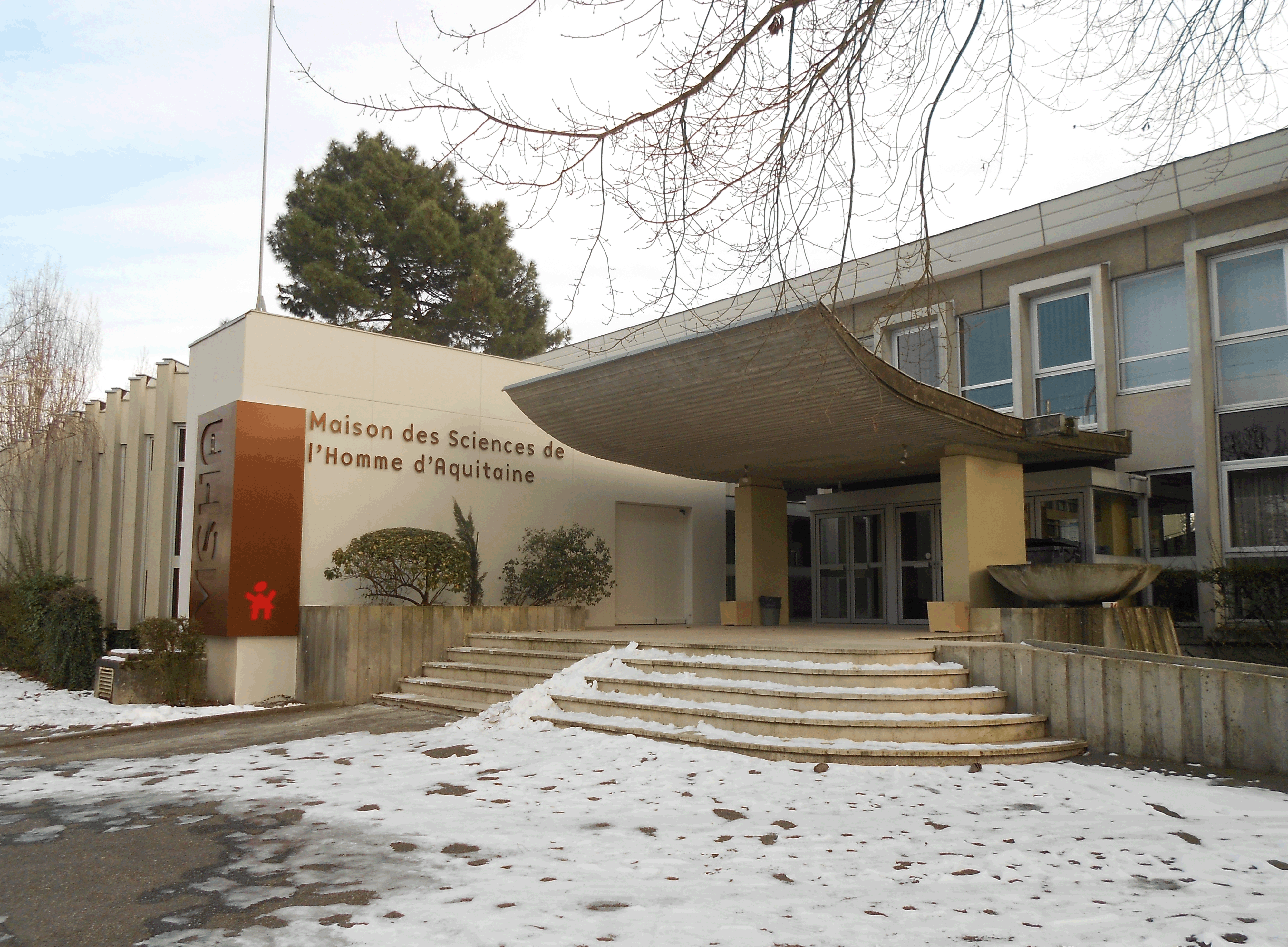 The 'Maison des Sciences de l'Homme d'Aquitaine' of Michel de Montaigne University (Bordeaux 3) in February 2012.